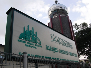 The facade of Masjid Ahmad Ibrahim, with its sign and minaret.